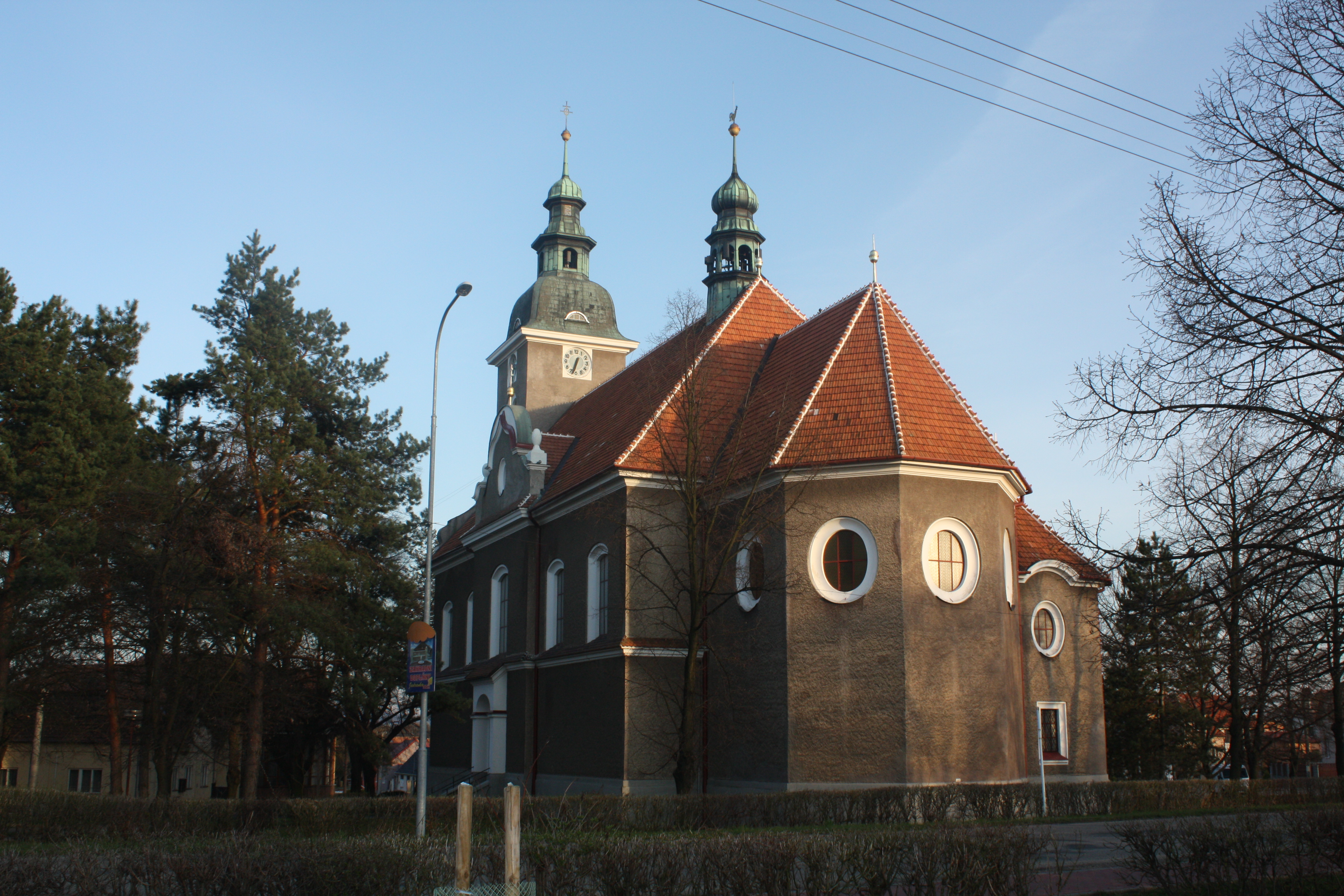 Rohatec (Hodonín district, Czech Republic) - St. Bartholomew church